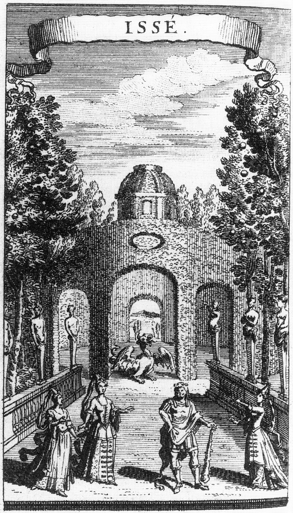 André Cardinal Destouches - Issé - Jean Bérain - picture from the libretto, Paris 1708